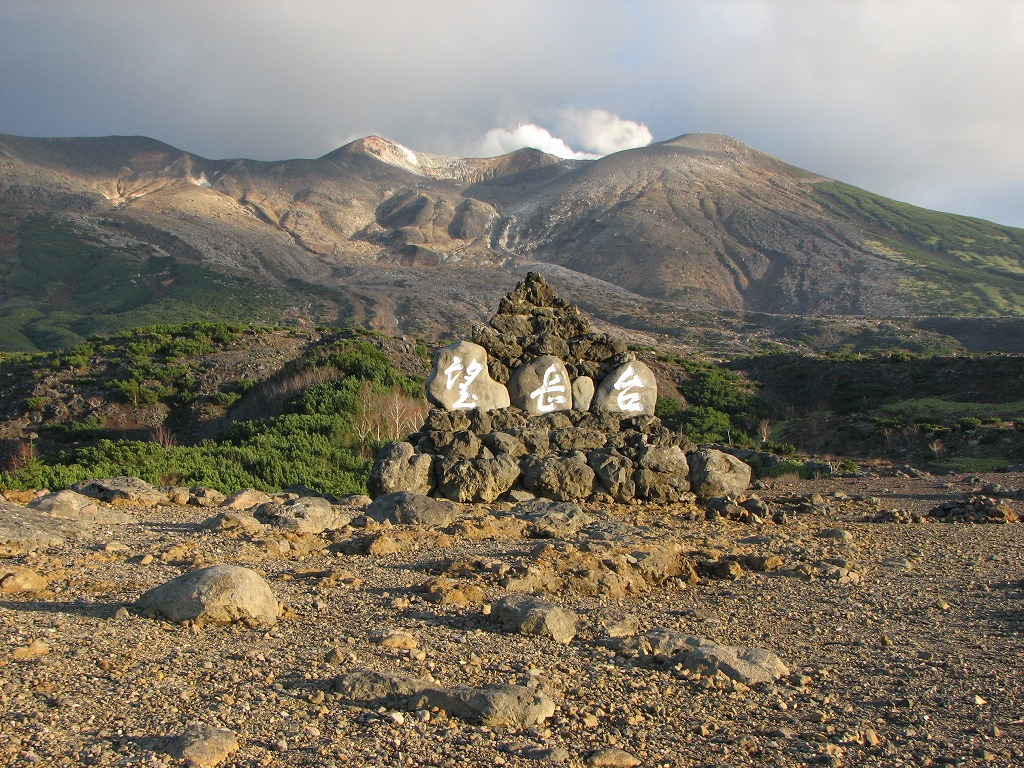 tokachidake-bogakudai 十勝岳望岳